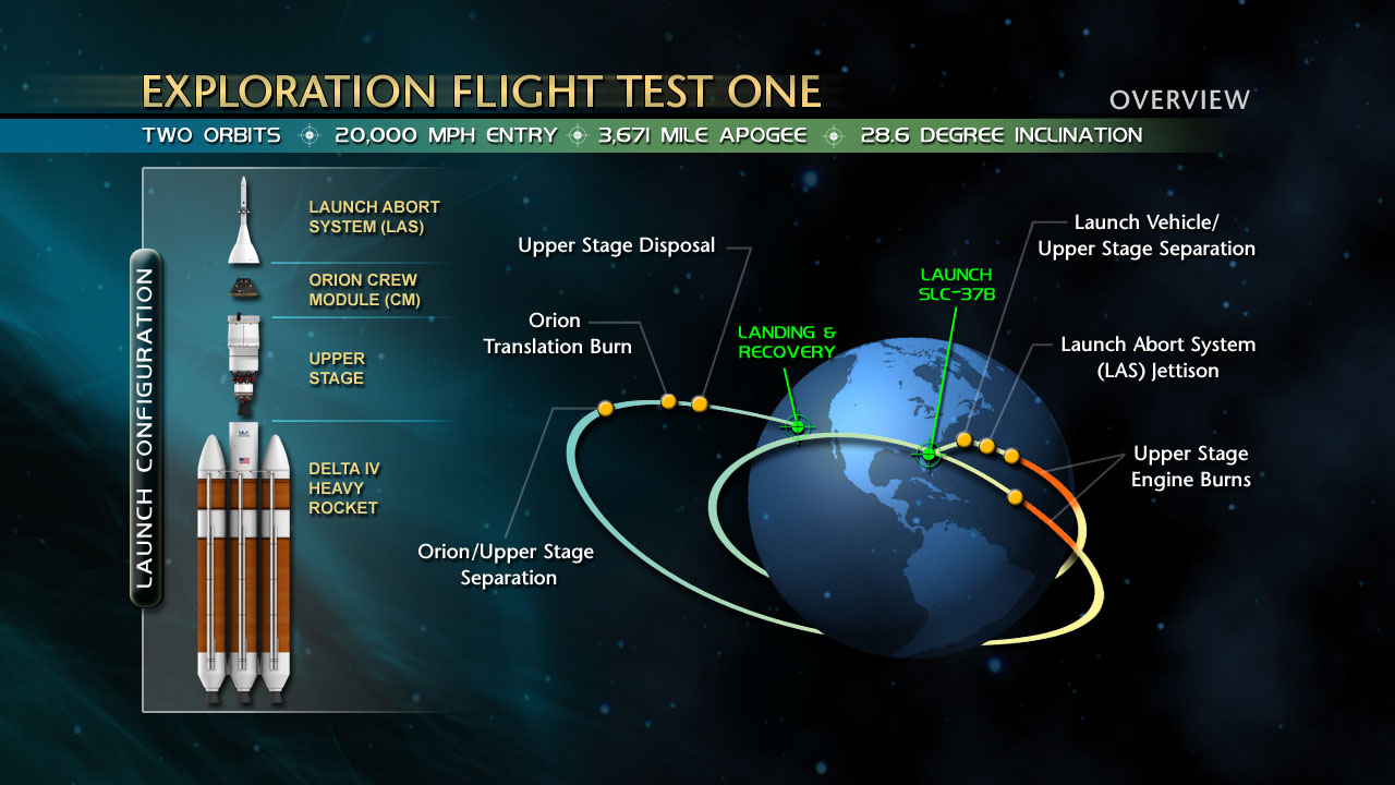 None.